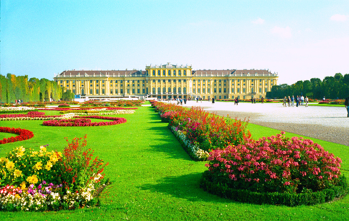 view of Schonbrunn Palace from garden